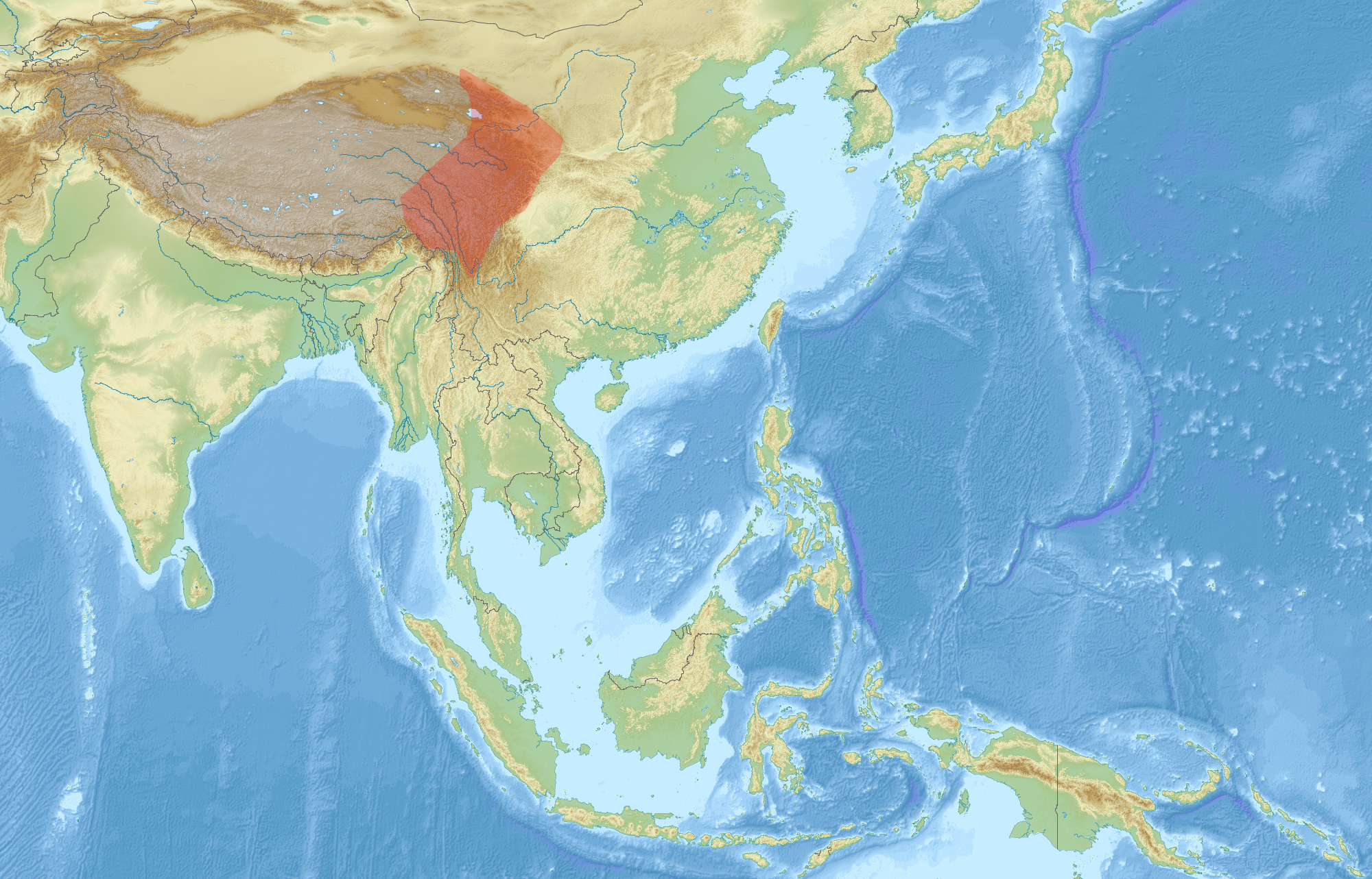 Distribution of Petaurista xanthotis Projection: Equirectangular projection, strechted by 112.0%. Geographic limits of the map: N: 44.0° N S: -11.0° N W: 67.0° E E: 163.0° E GMT projection: -JX33.86666666666667cd/21.73111111111111cd GMT region: -R67.0/-11.0/163.0/44.0r GMT region for grdcut: -R67.0/-11.0/163.0/44.0r Relief: SRTM30plus. Made with Natural Earth. Free vector and raster map data @ .